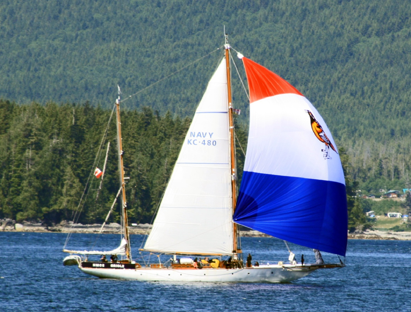 "HMCS Oriole" at Barkley Sound